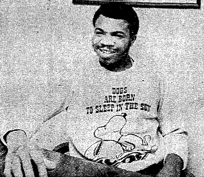 Professional boxer Ray Lampkin , wearing a sweatshirt featuring Snoopy and the words "Dogs are born to sleep in the sun"